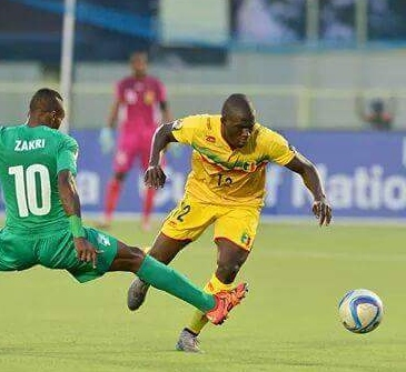 Against Cote d'Ivoire, CHAN 2016 Half Final, 2 February 2016